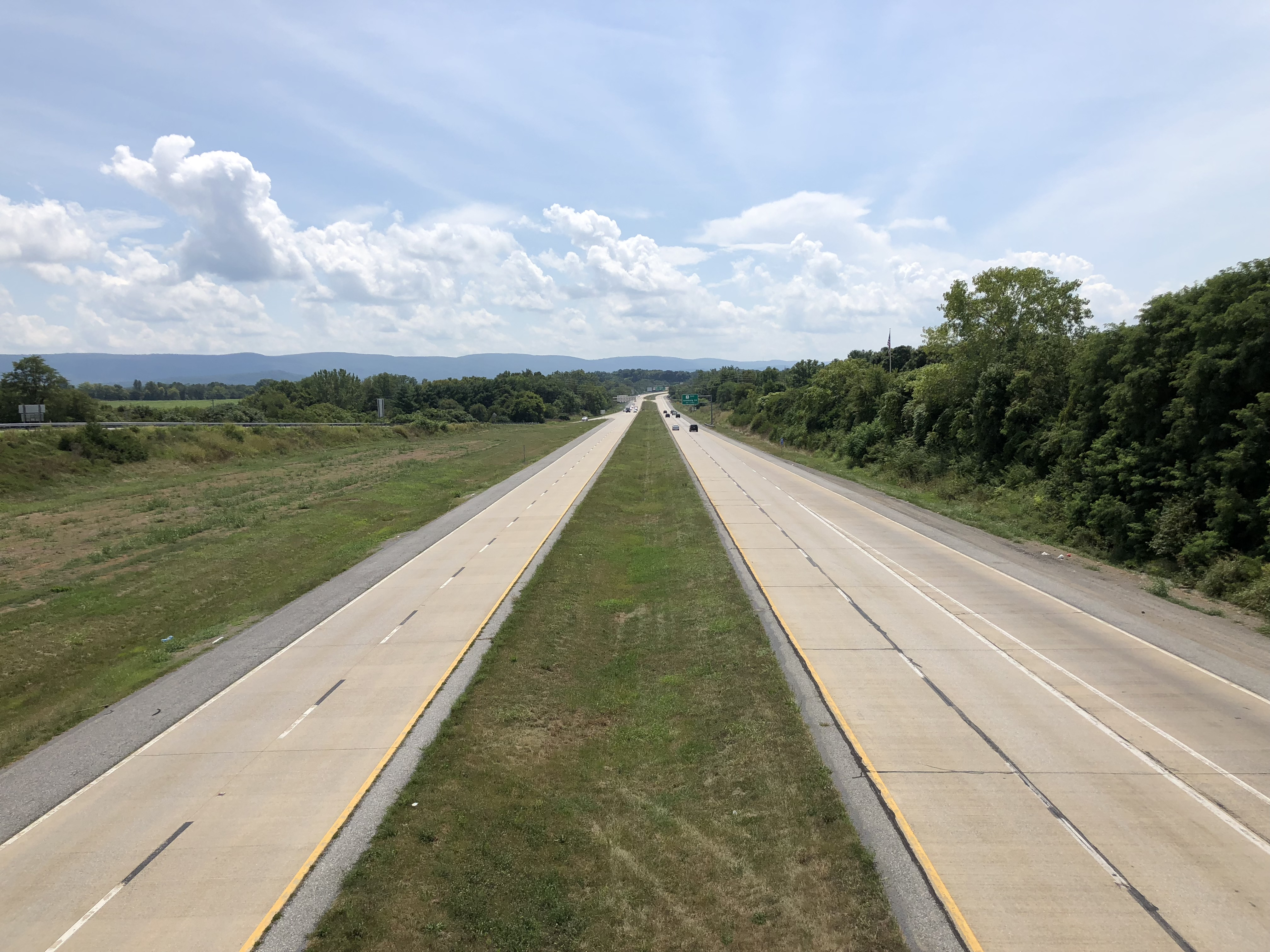 View south along U.S. Route 340 and east along West Virginia State Route 9 (Charles Town Bypass) from the overpass for U.S. Route 340 and West Virginia State Route 51 (Washington Street/William L. Wilson Freeway) in Charles Town, Jefferson County, West Virginia